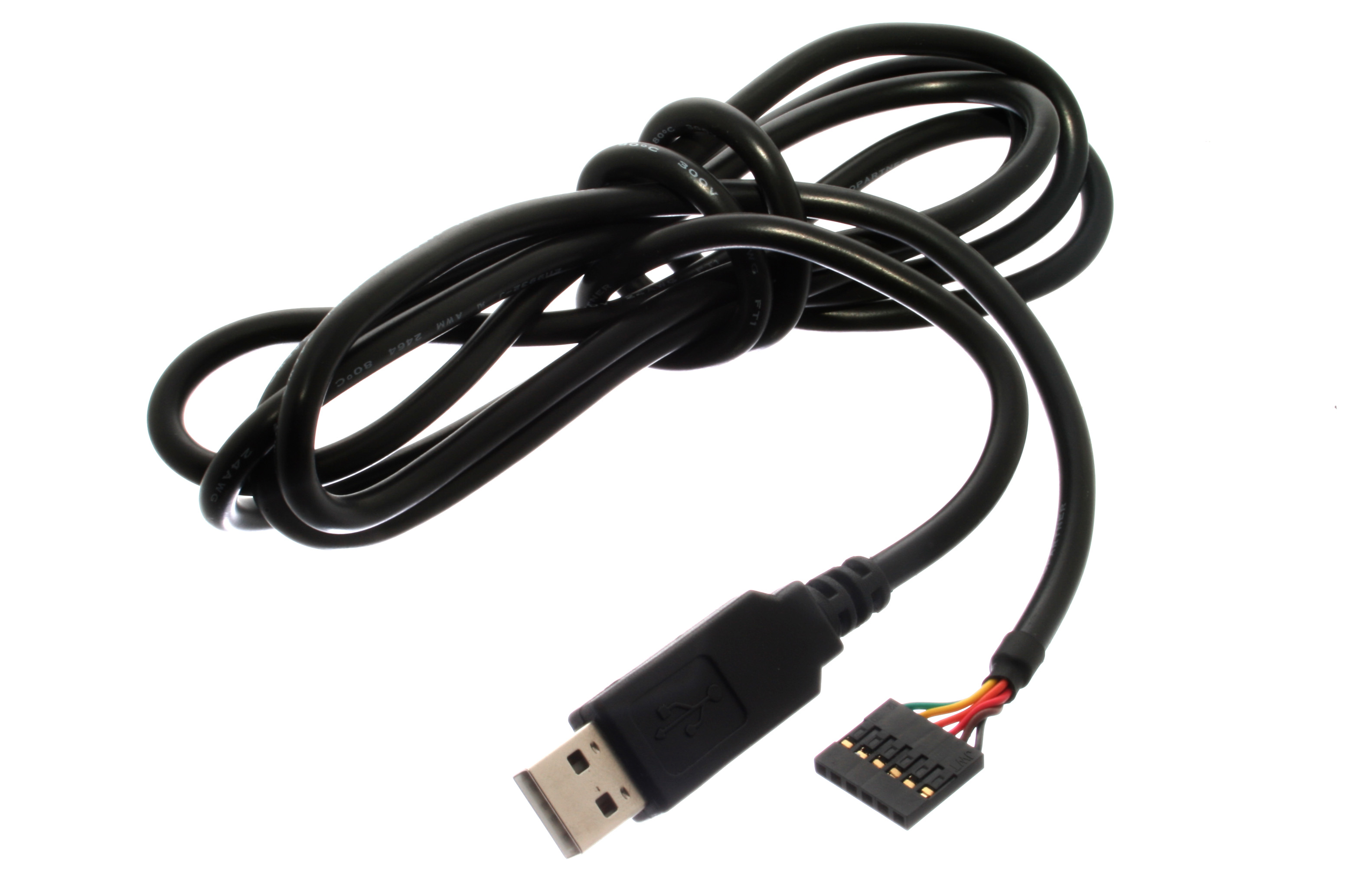 The FTDI cable is a USB to Serial (TTL level) converter. The USB A connector houses a FTDI FT232RQ USB to serial interface IC. The other end of the cable is terminated with a 6 way 0.1” pitch header socket which provides access to the CTS#, TXD, RXD and RTS# signals, as well as GND and Vcc (5V).